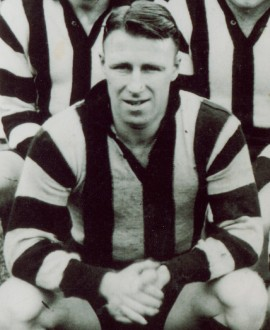 Photo of Jim Crowe from 1936-1937